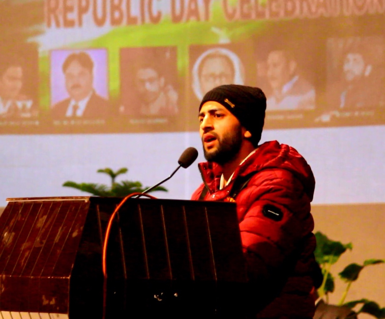 Bashir Mehtaab reciting poetry at All India Urdu Mushaira at Abhinav Theatre, Jammu — organised by J&KAACL on 28th January, 2019